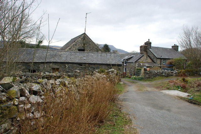 Gelli Goch One of the homes of St John Roberts, one of the 40 martyrs of England and Wales.